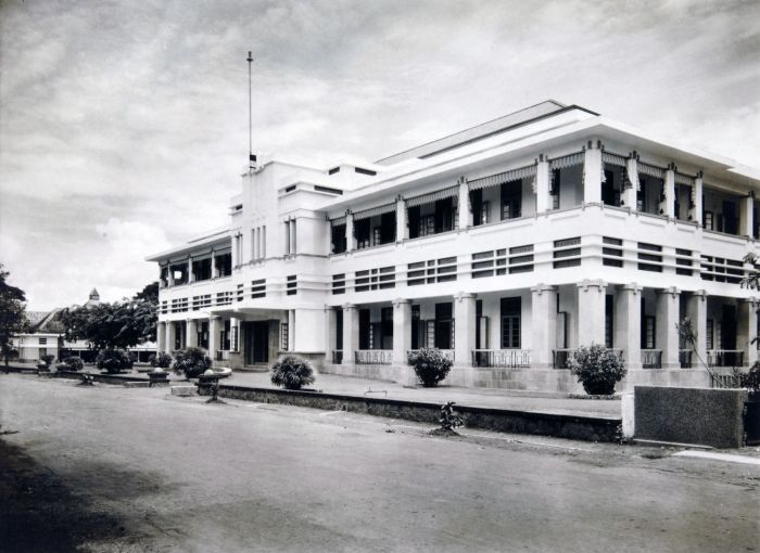 The headoffice of the ANIEM on Embong Woengoe